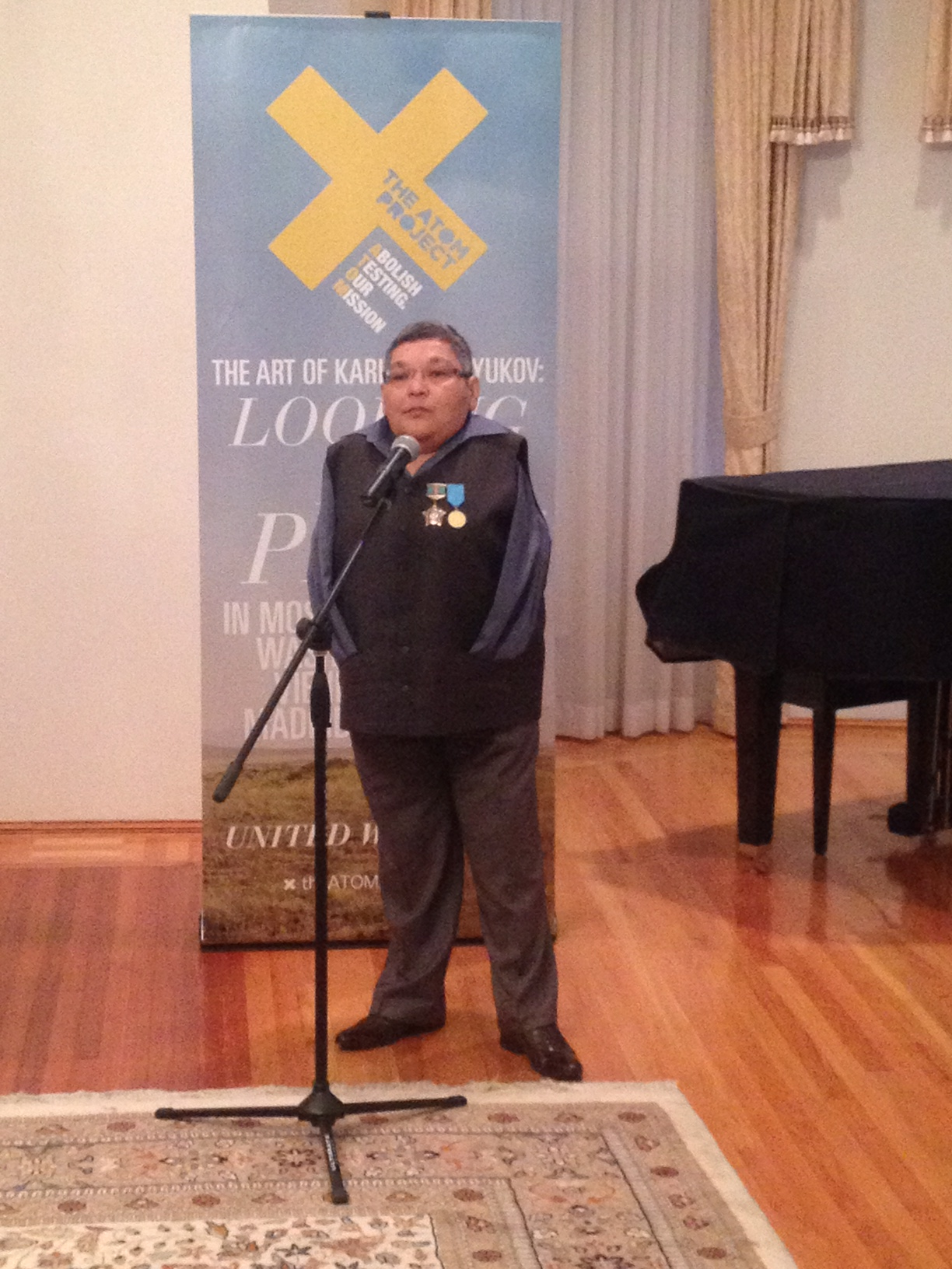 Karipbek Kuyukov is an armless painter from Kazakhstan, and global anti-nuclear weapon testing & nonproliferation activist.